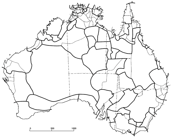 Linguistic Areas in Australia and intended filogenetic linguistic families in Australia according to Dixon (2002). Solid Lines represent each of the 50 groups proposed by Dixon, dashed lines represent subgroups. Source: R. M. W. Dixon Australian Languages: Their Nature and Development, 2002.